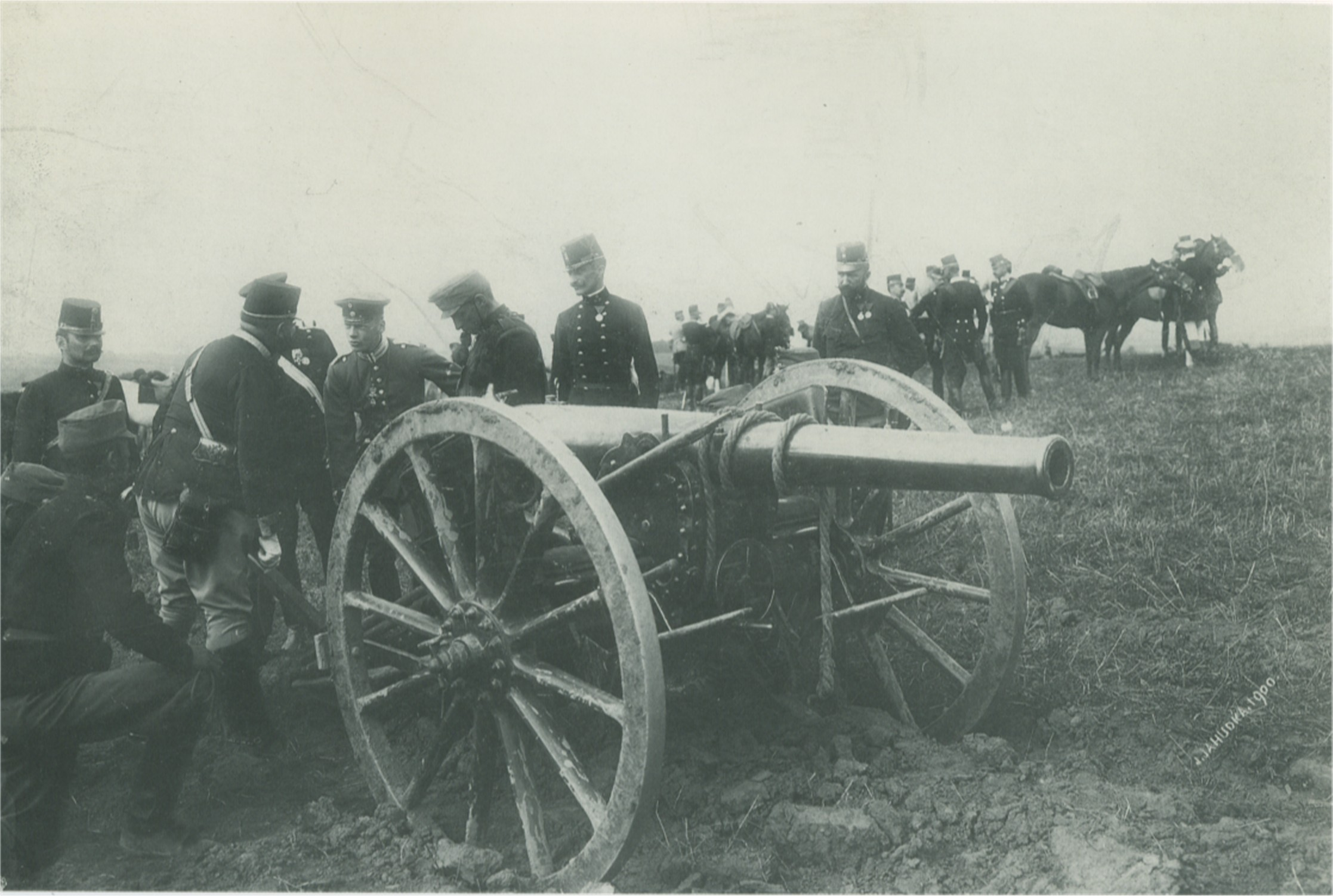 Austro-Hungarian field artillery exercising with 90 mm Feldkanone M 75 (Field-Gun)